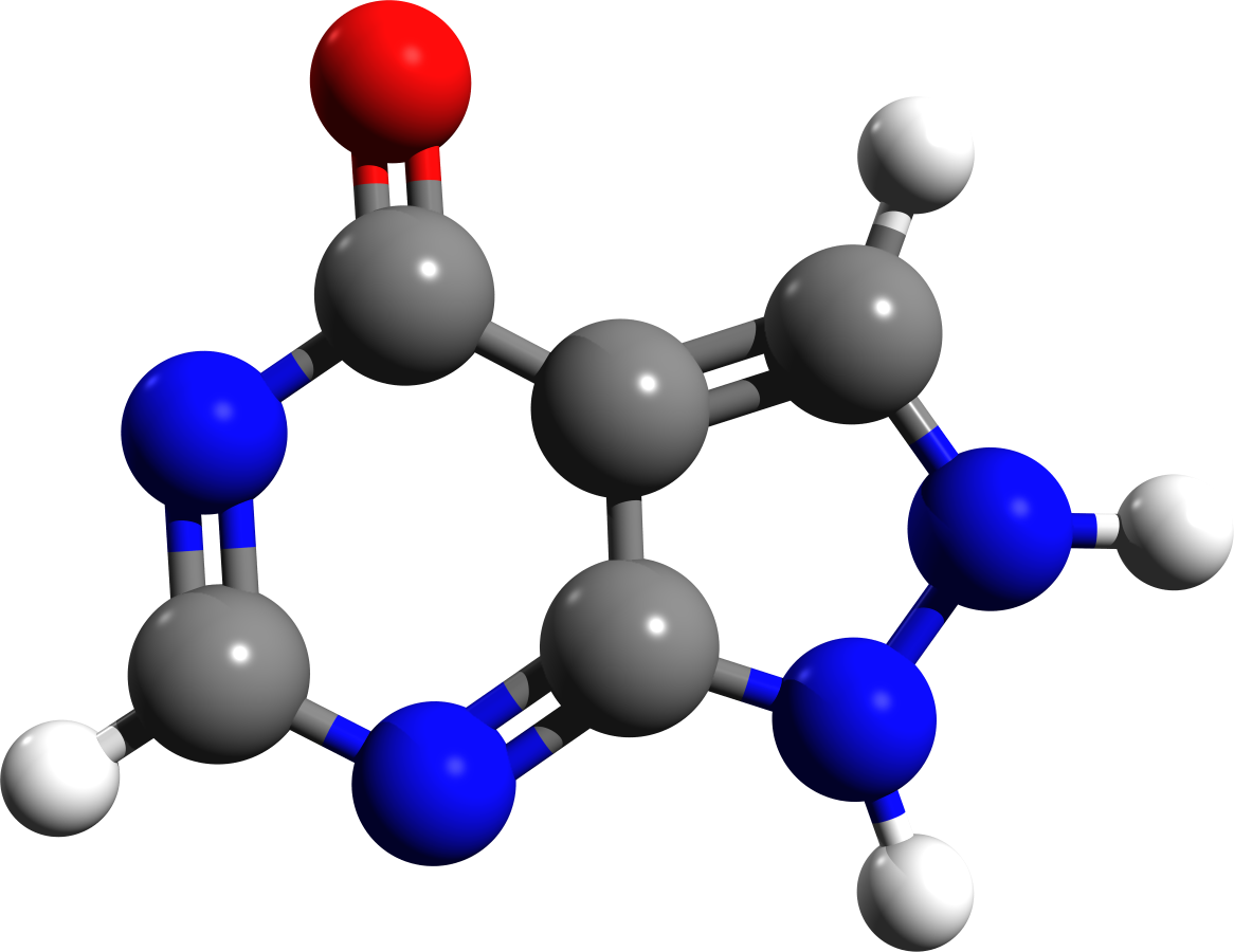 allopurinol structure